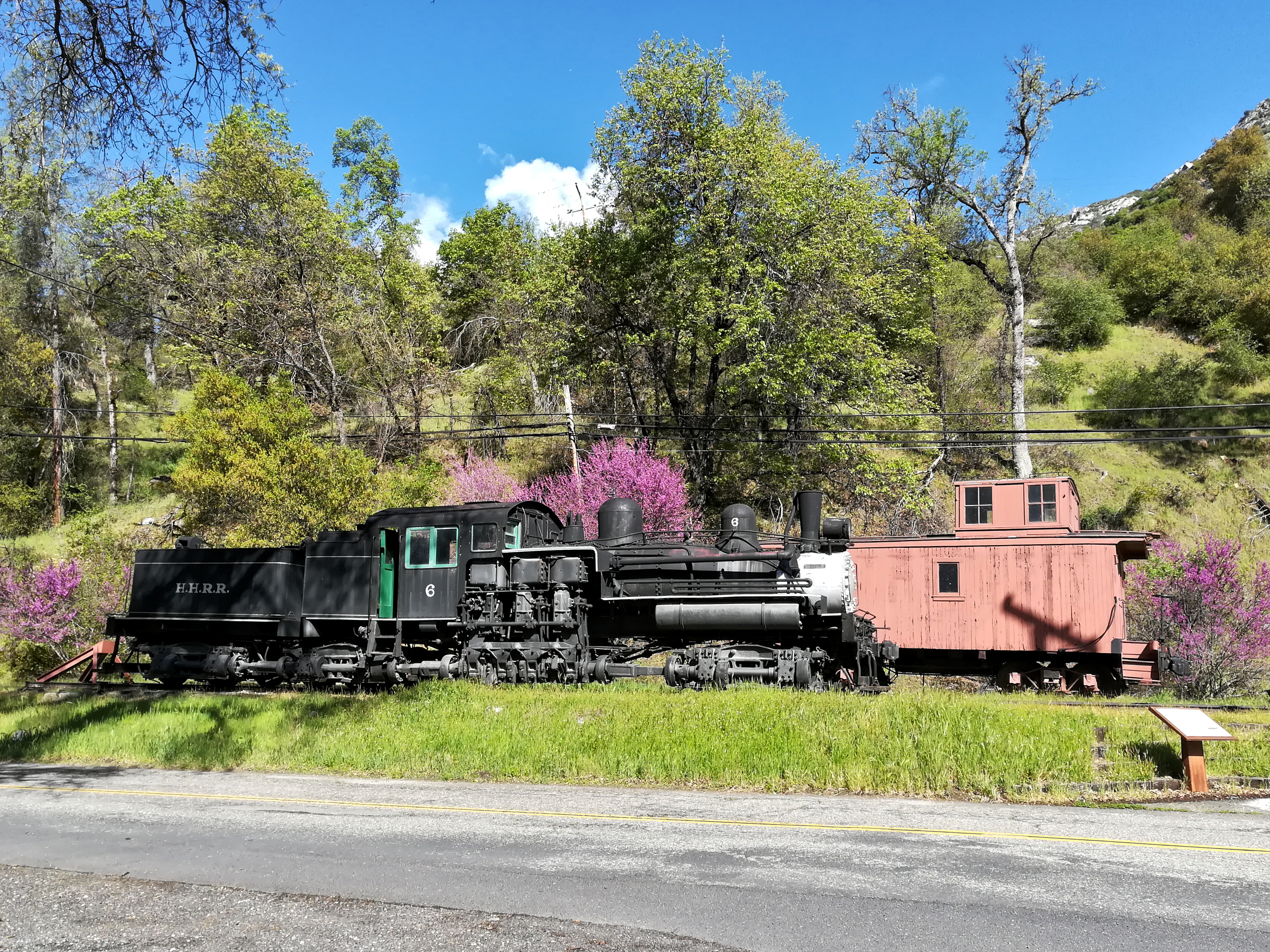 El Portal (California)